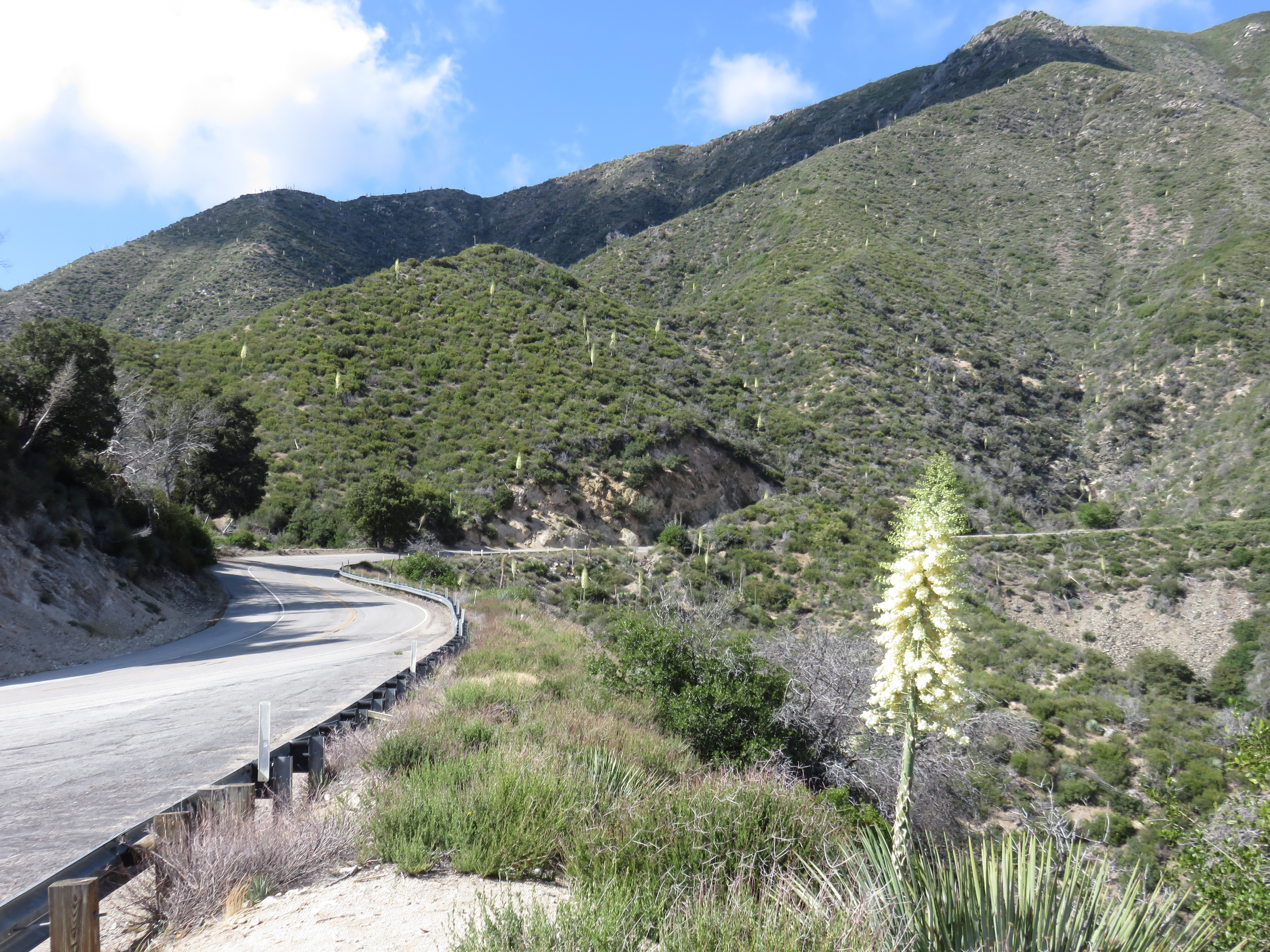 Yucca plants (Hesperoyucca whipplei) in bloom in the San Gabriel Mountains of California in 2019